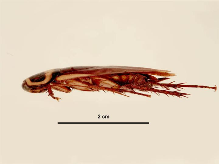 Periplaneta australasiae (Australian cockroach) side (lateral) view